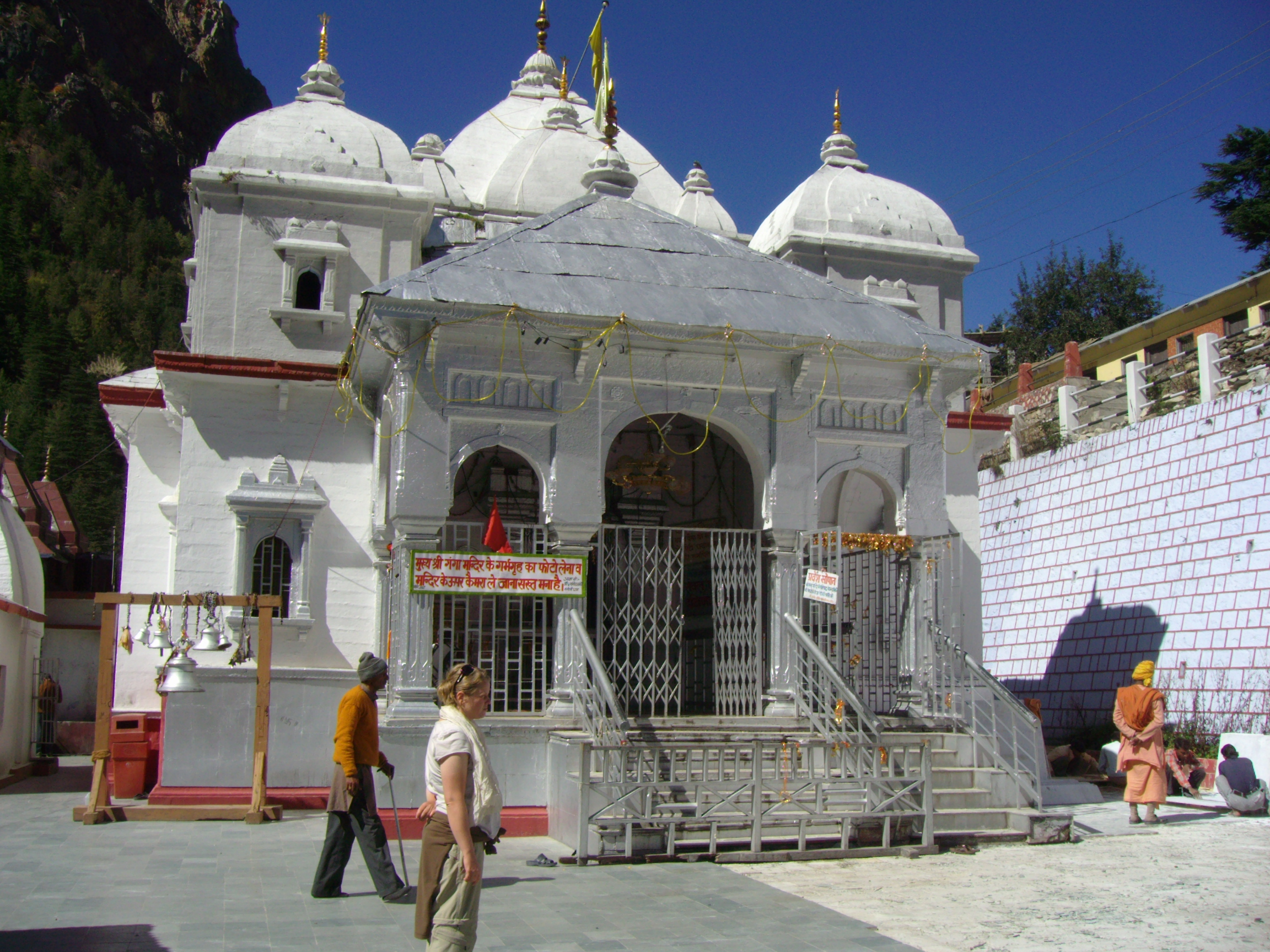 Gangotri temple in Uttarakhand, India